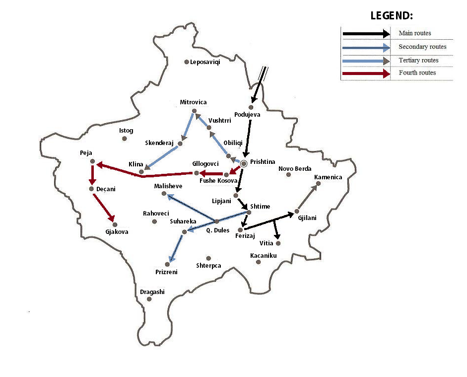 This is a map shows the route of poisoning in Kosovo.